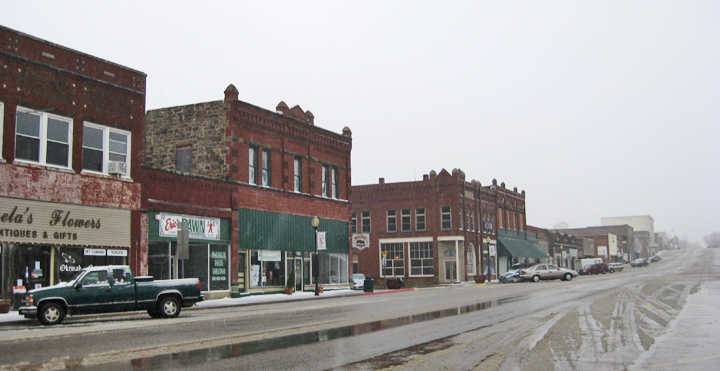 Downtown Okemah, Oklahoma, west Broadway street facing west.